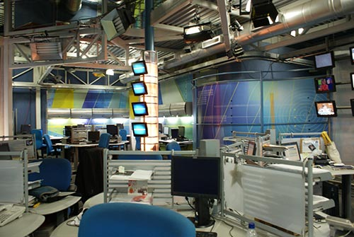 studios fo RCTV's El Observador